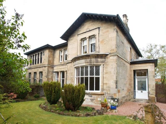 Warwick Croft and 43 Alexandra Road